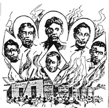 “The Mob at the Lake City Post Office--An Artist’s Portrayal,” reproduced from the Boston Post, 10 August 1899. Included in "The Lynching of Postmaster Frazier Baker and His Infant Daughter Julia in Lake City, South Carolina, in 1898 and its Aftermath"